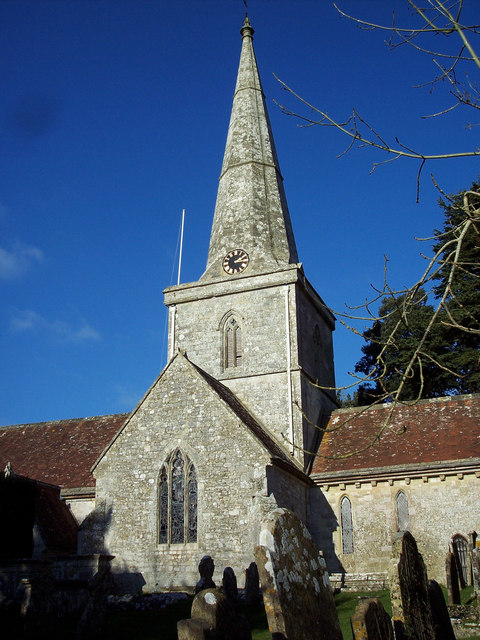 Central tower, broach spire and south transept of St Margaret of Antioch parish church, Chilmark, Wiltshire, England